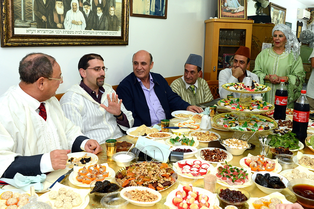 At the invitation of Ashkelon Mayor Benny Vaknin, U.S. Ambassador Dan Shapiro took part in Mimouna celebrations hosted by the Amar and Portal families in Ashkelon. The Ambassador donned holiday clothes, tasted holiday delicacies including mufleta pancakes, and welcomed the opportunity to take an active part in the traditional North African Jewish celebrations marking the end of the Passover holiday.